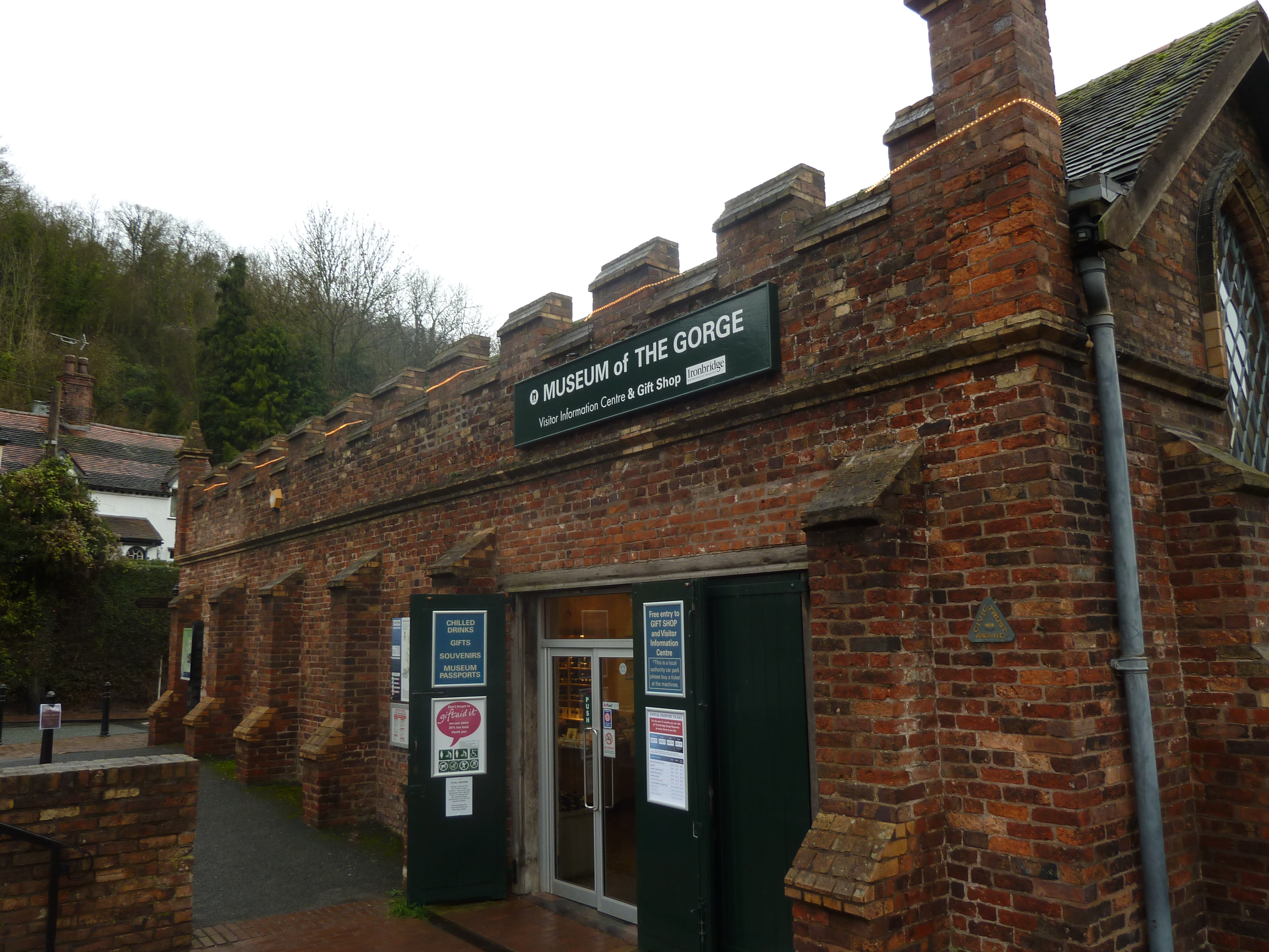 Museum of the Gorge, Ironbridge